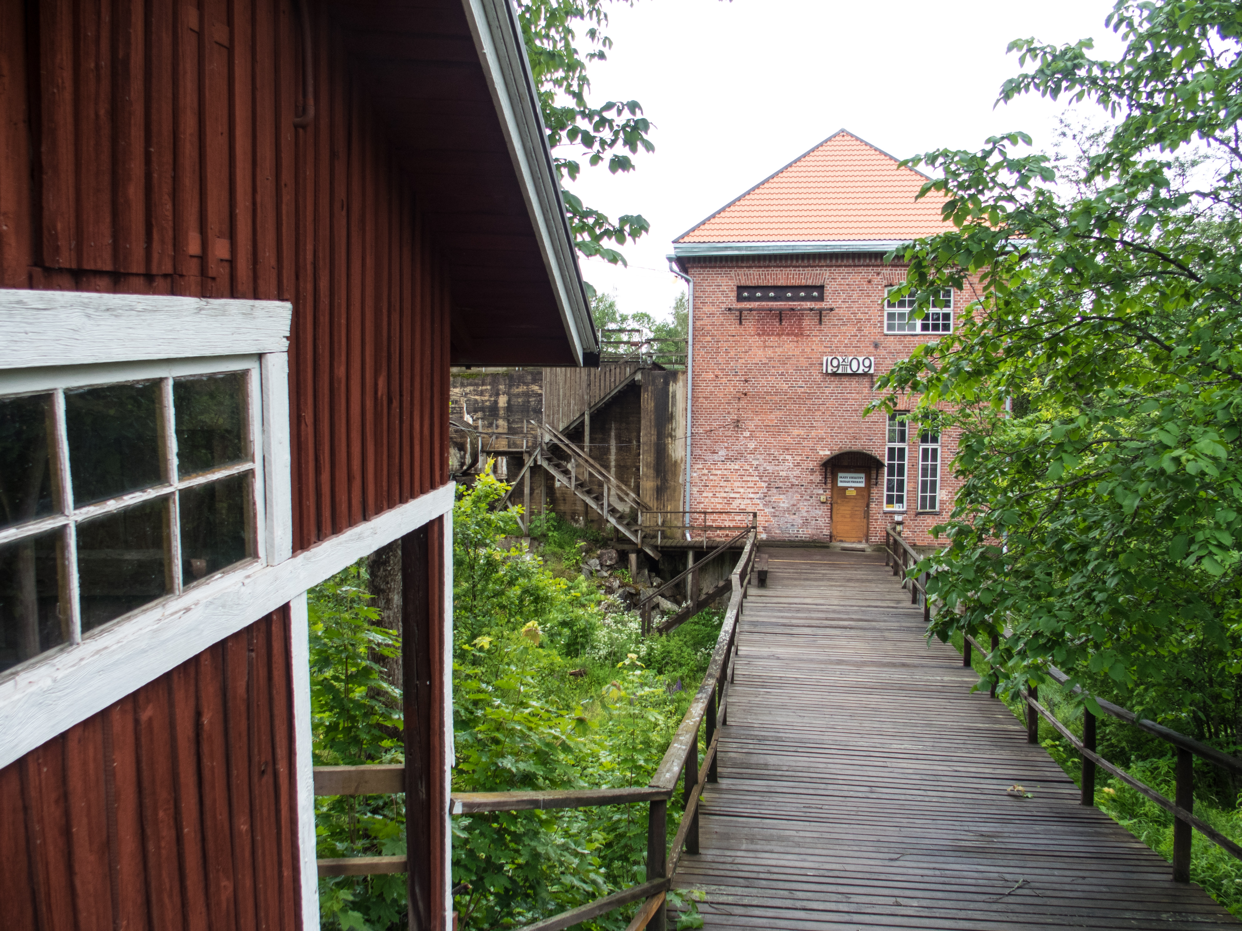 Entrance to the hydropower mill of former ironworks in Koski, Salo, Finland, built in 1909.